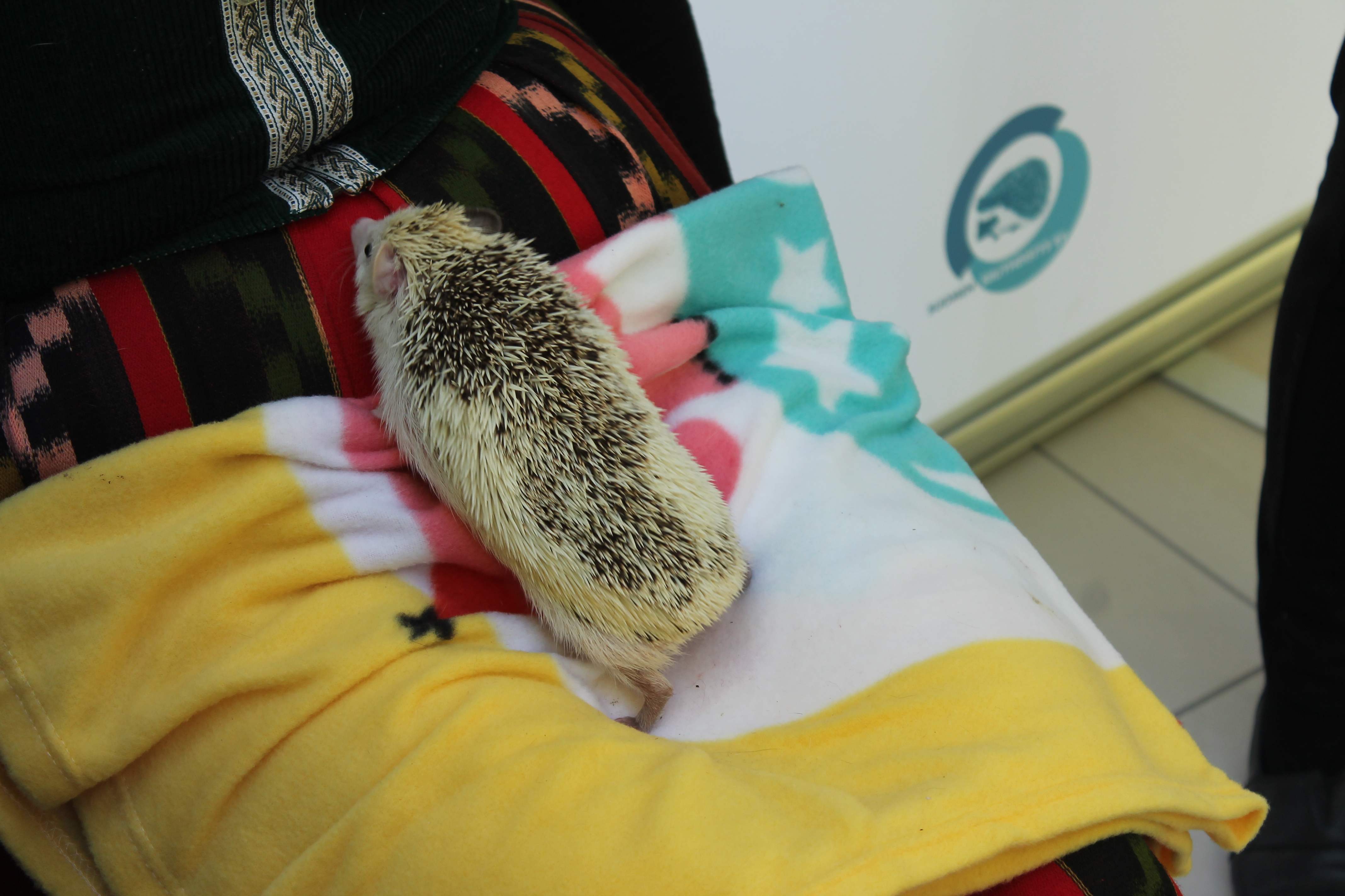 Four-toed hedgehog that is crossbreeded with so called regular and an albino hedgehog.